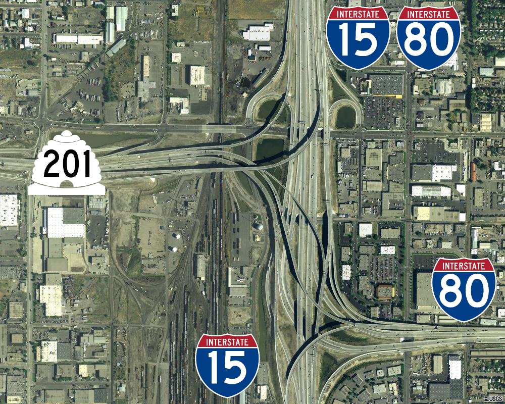 Aerial image of the "spaghetti bowl", the junction of SR-201, I-15, and I-80 in South Salt Lake, Utah. This is a retouched picture, which means that it has been digitally altered from its original version. Modifications: Shields added to base map. Modifications made by CountyLemonade.